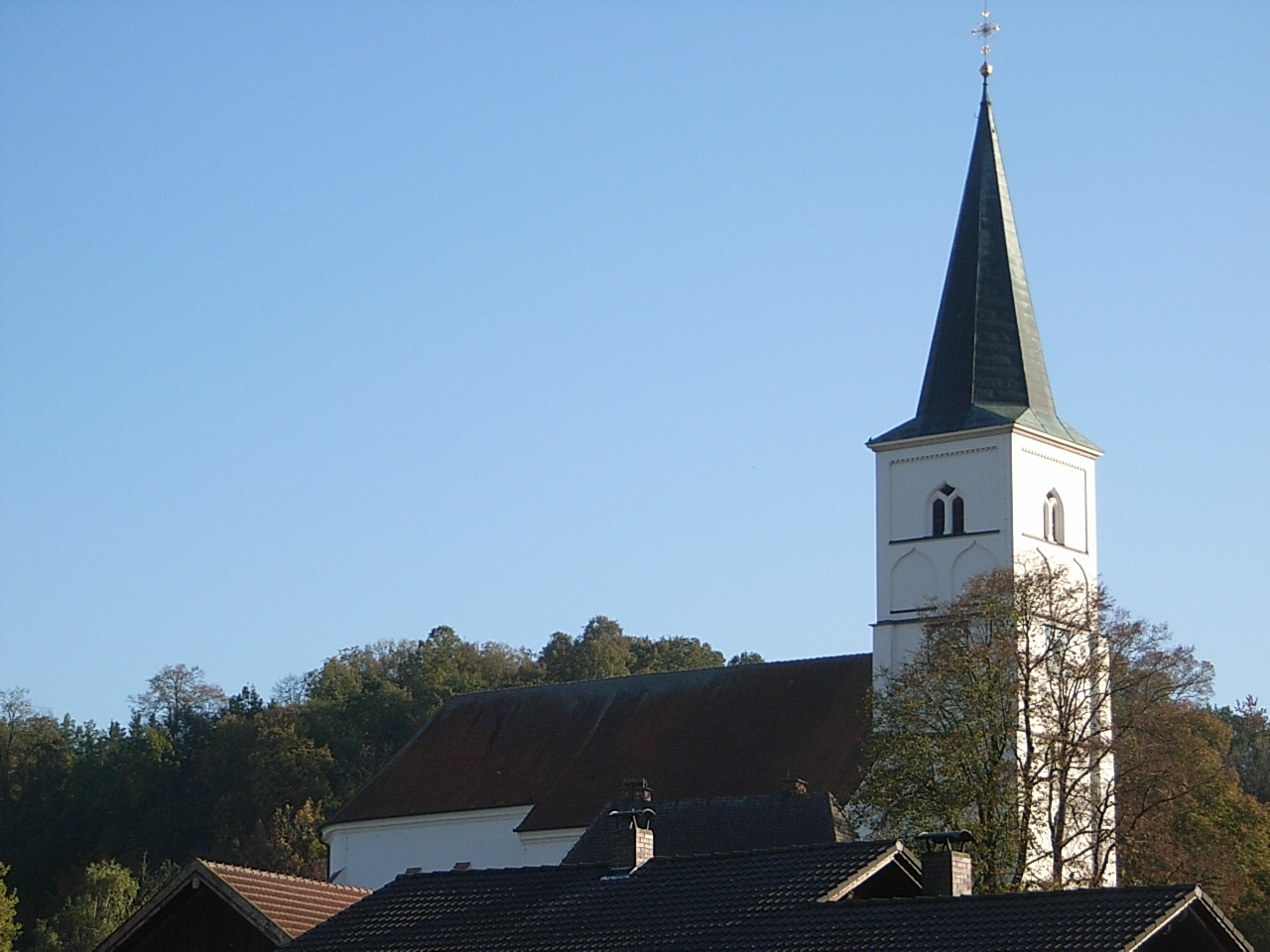 Postmünster, view from north-west over the rooftops of the village to St Benedict Parish Church.